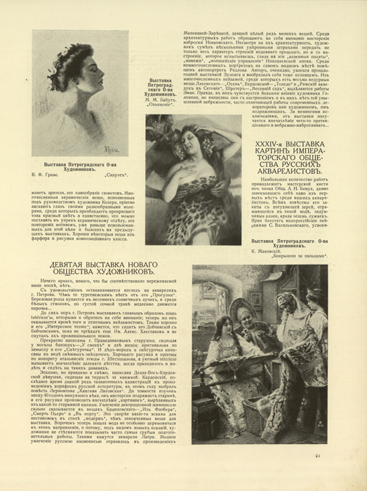 «Stolitsa i Usad'ba» («The Capital and Mansion»), page featuring artistic exhibitions of 1915